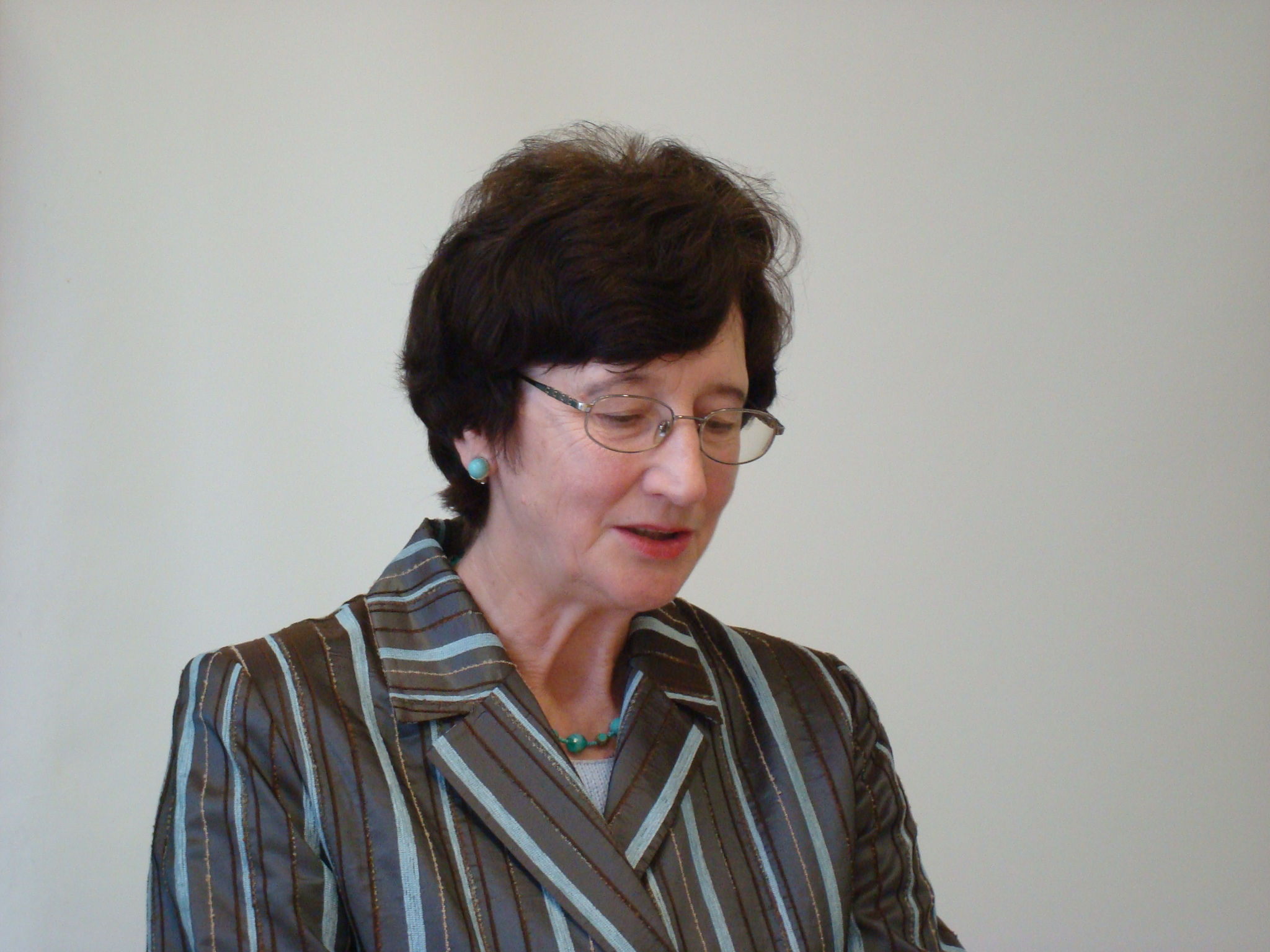 Anne Lill, is an Estonian Classical literature researcher, Professor of Classical Philology